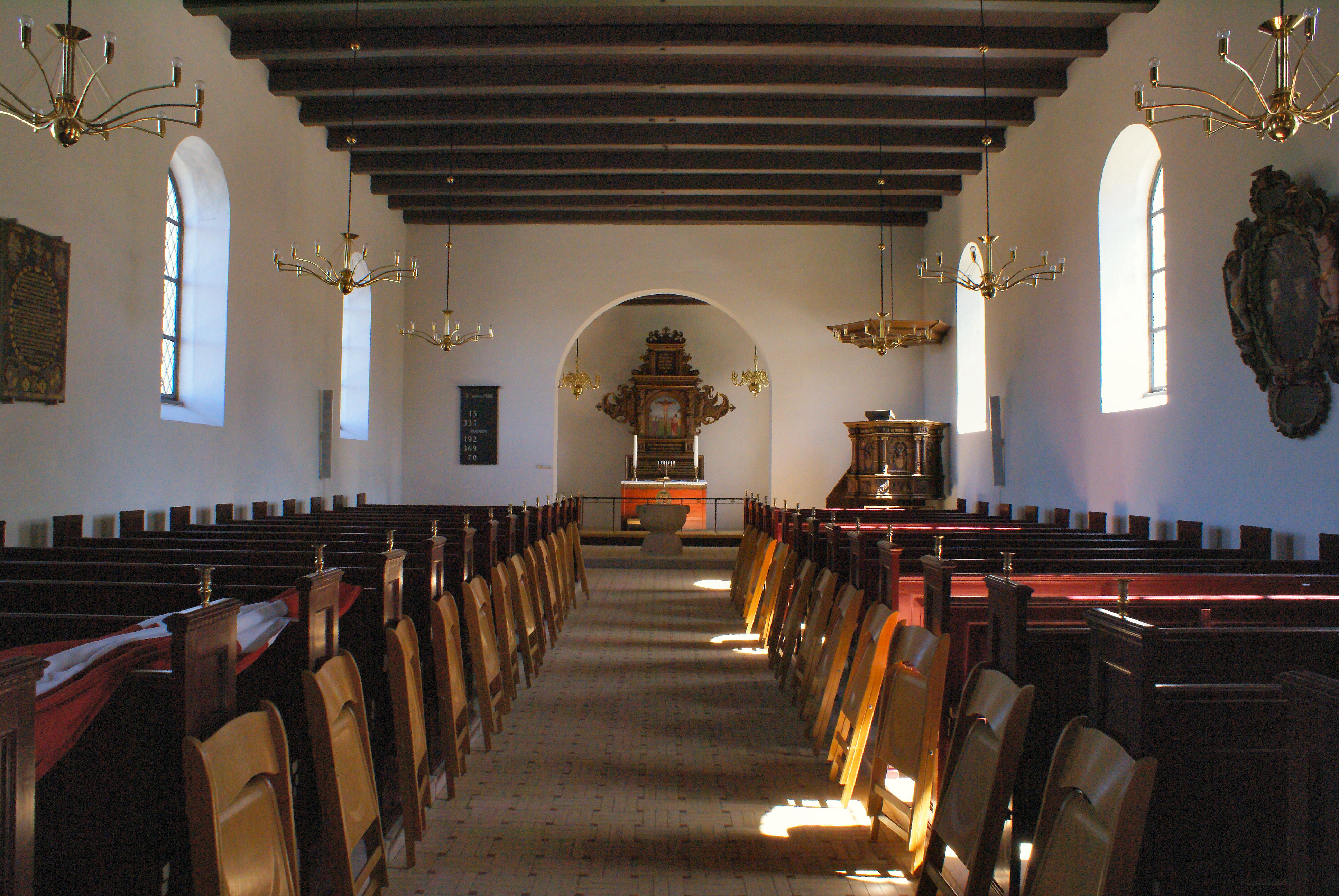 Kristrup Church, Randers, Diocese of Århus